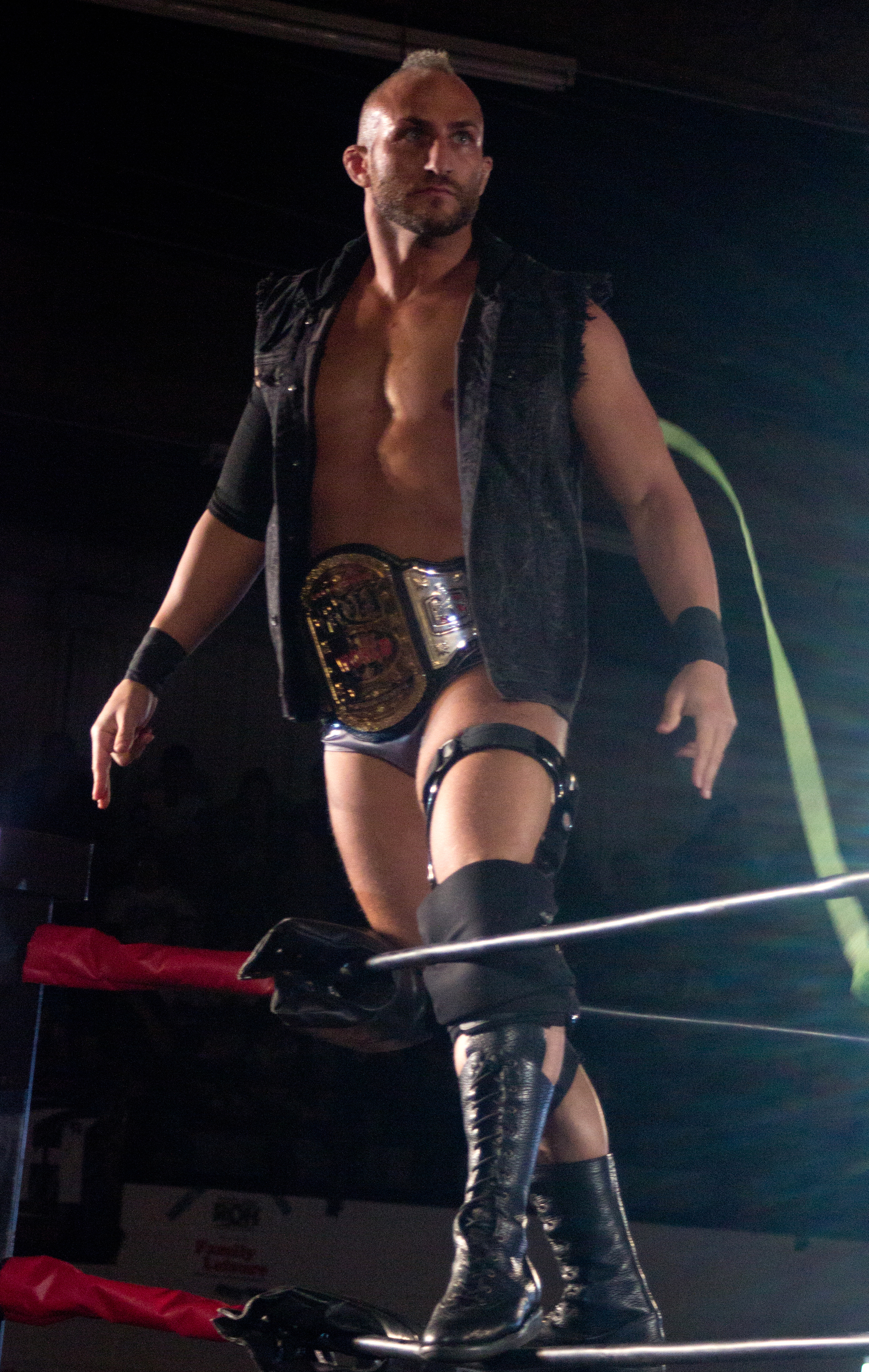 Tommaso Ciampa, the ROH World Television Champion, at ROH's first show in Nashville, Tennessee, on January 4, 2014. cropped and auto-contrast applied.